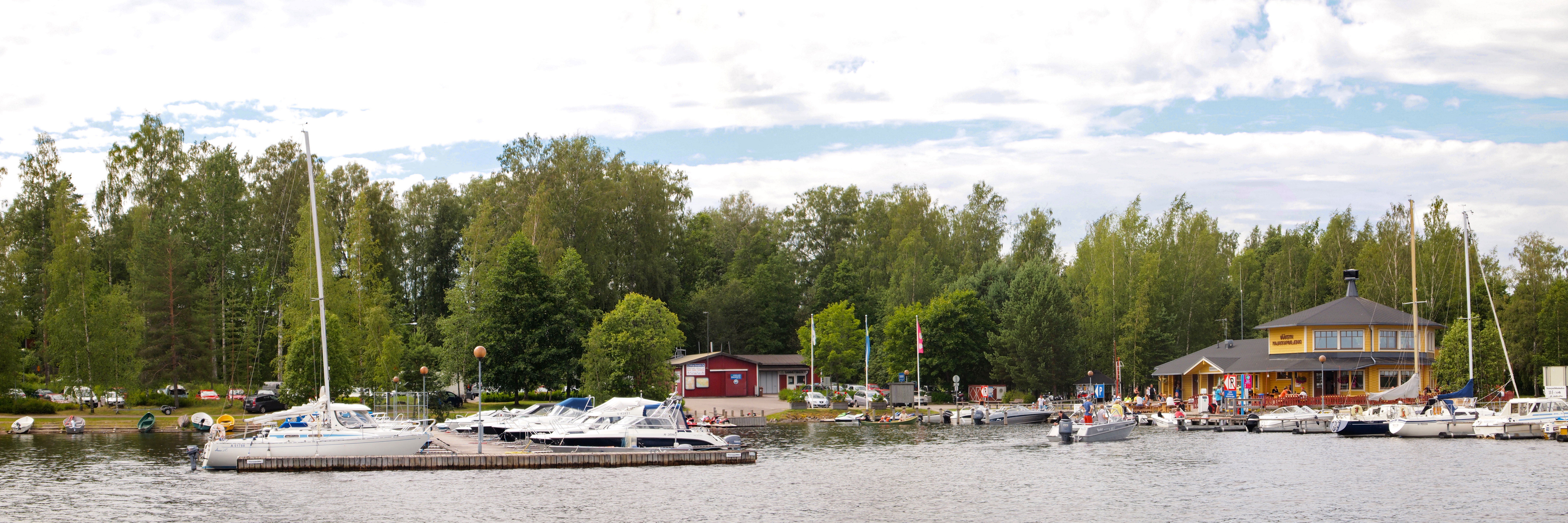 Harbour in Vääksy, Asikkala. This photograph was taken with an Olympus E-PL1